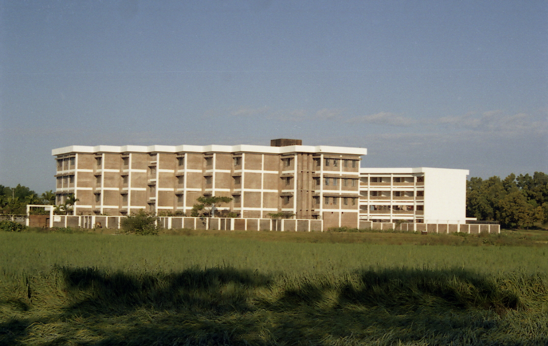 Shahjalal University of Science & Technology, Sylhet, Bangladesh